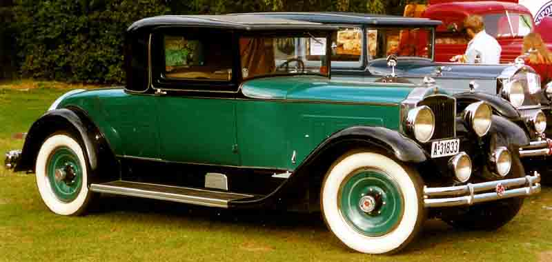 Packard Standard Eighth Series 833 2/4 passenger Coupé (style #468)